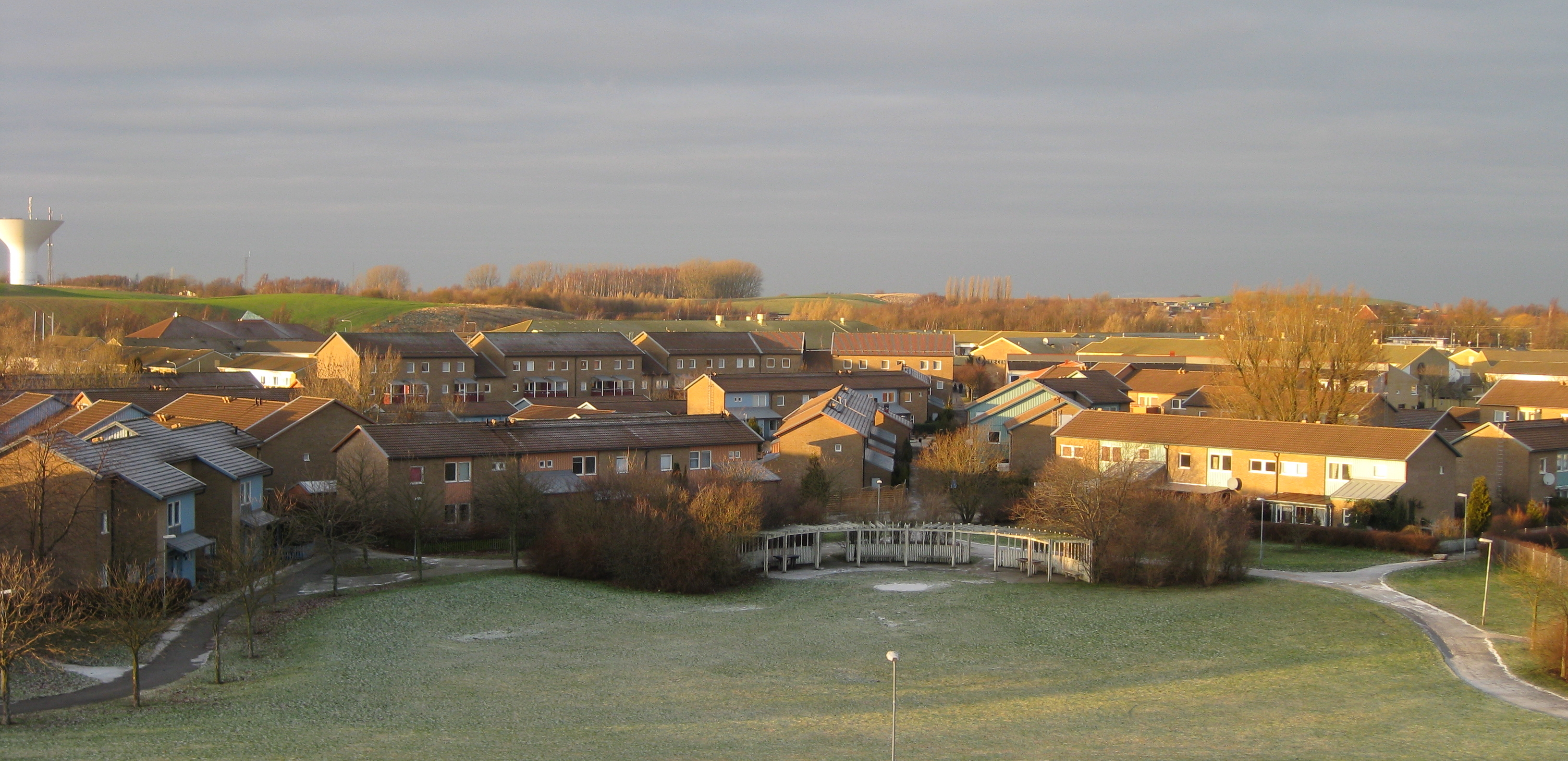 View of Oxievång, Oxie, Malmö, Sweden